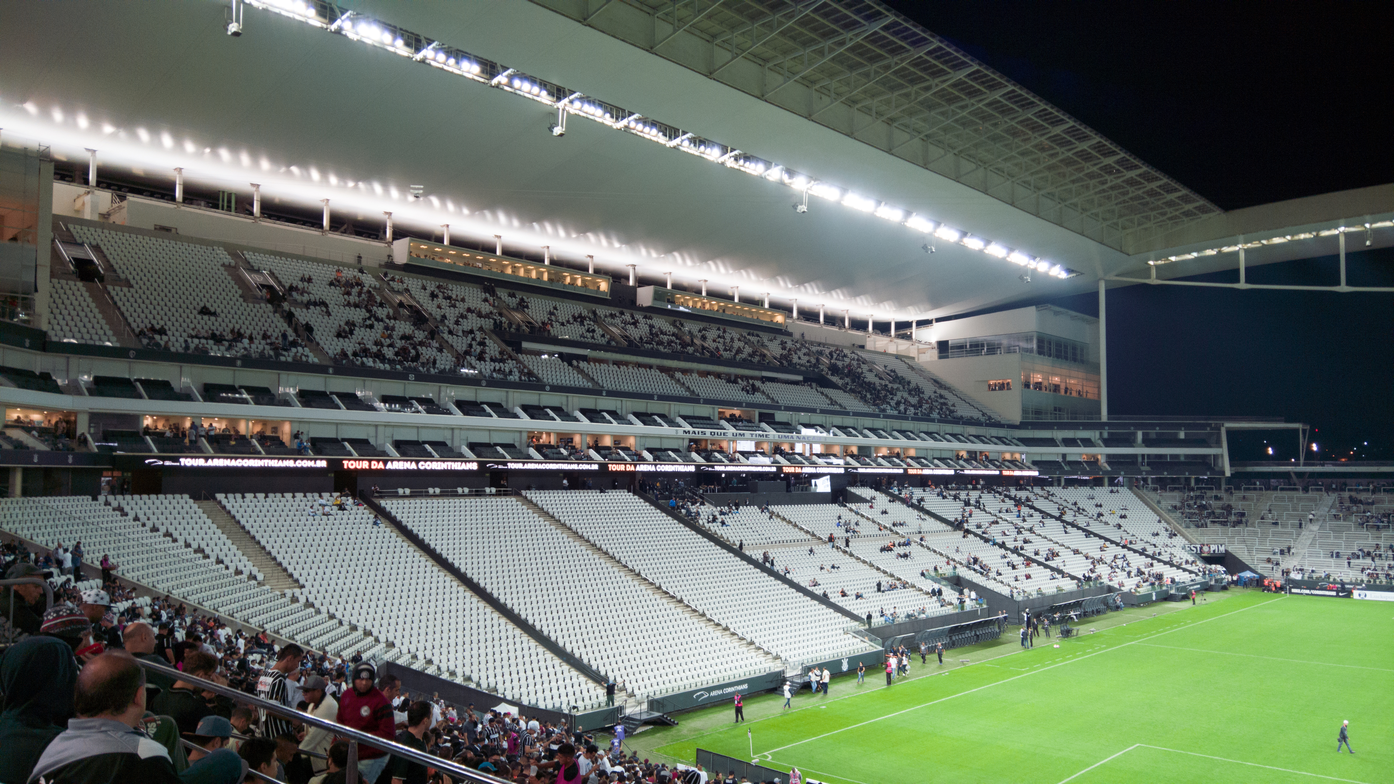 Inside of the Arena Corinthians stadium at night. São Paulo, Brazil.